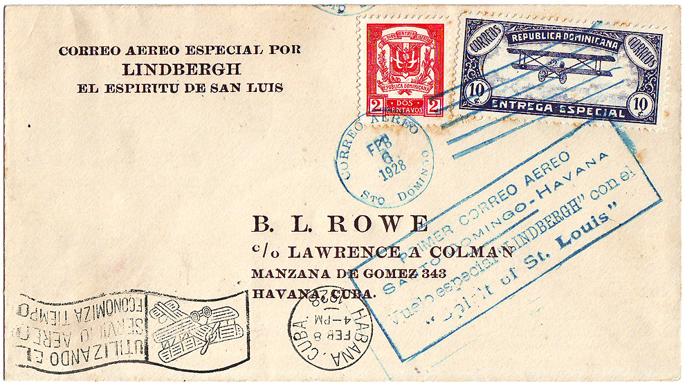 A rare surviving B.L. Rowe corner Cover flown by Charles A. Lindbergh in the Spirit of St. Louis from Santo Domingo, D.R. to Havana, Cuba, via Port-au-Prince, Haiti, February 6-8, 1928. Captioned As { }